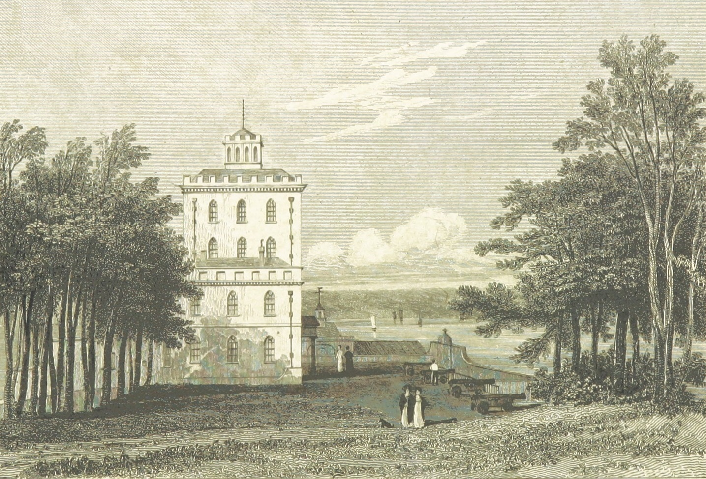 Image extracted from page 236 of volume 1 of "Views of the Seats of Noblemen and Gentlemen in England, Wales, Scotland and Ireland. L.P", by John Preston Neale. Original held and digitised by the British Library. Copied from Flickr.